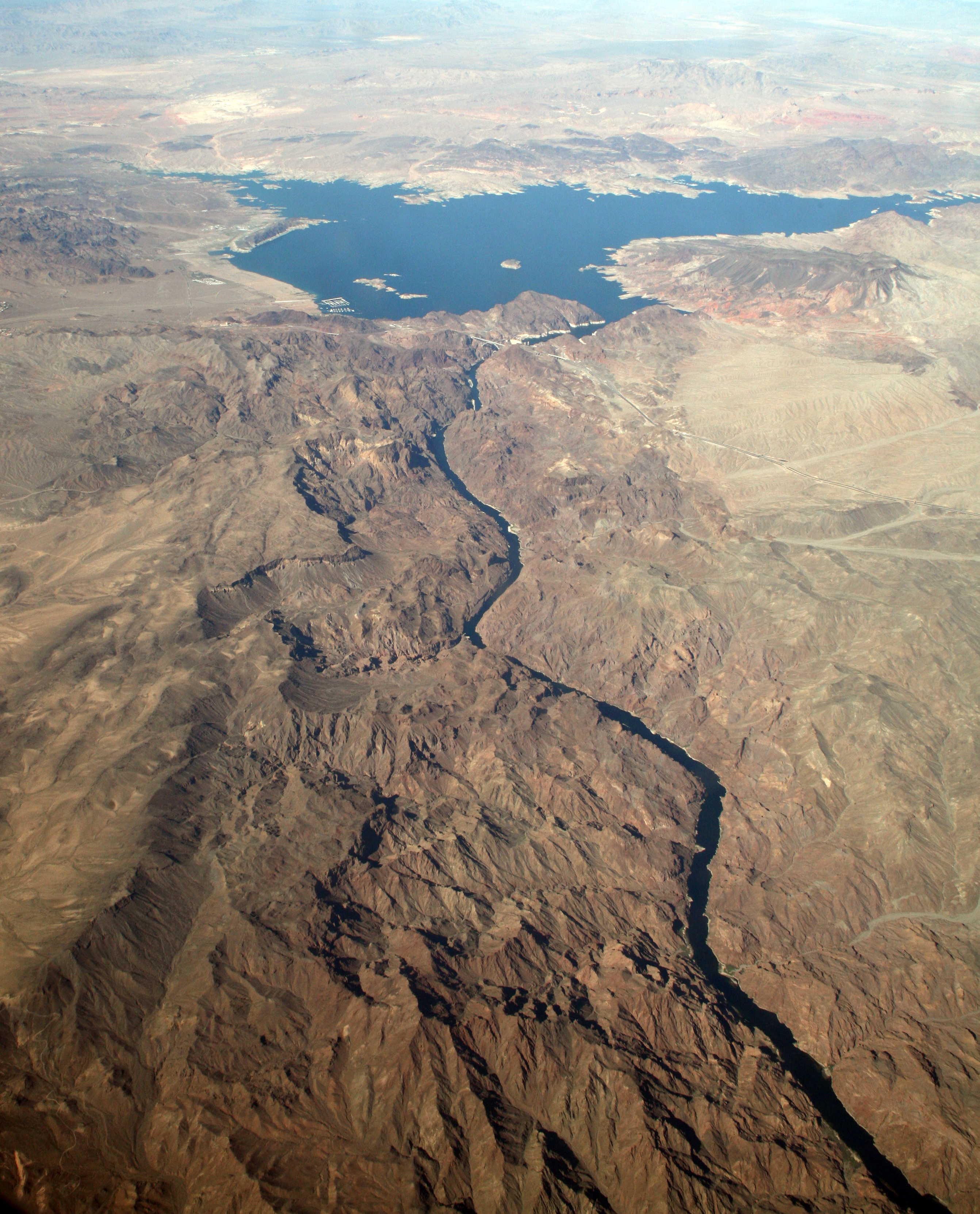 Black Canyon, Colorado River, Hoover Dam & Lake Mead AZ/NV. The Eldorado Mountains of Nevada on left, the Black Mountains (Arizona) on right with a highpoint in north of Mount Wilson. Note: Willow Beach is just out of the photo downstream. (Photo from Willow Beach to Hoover Dam/Lake Mead.)